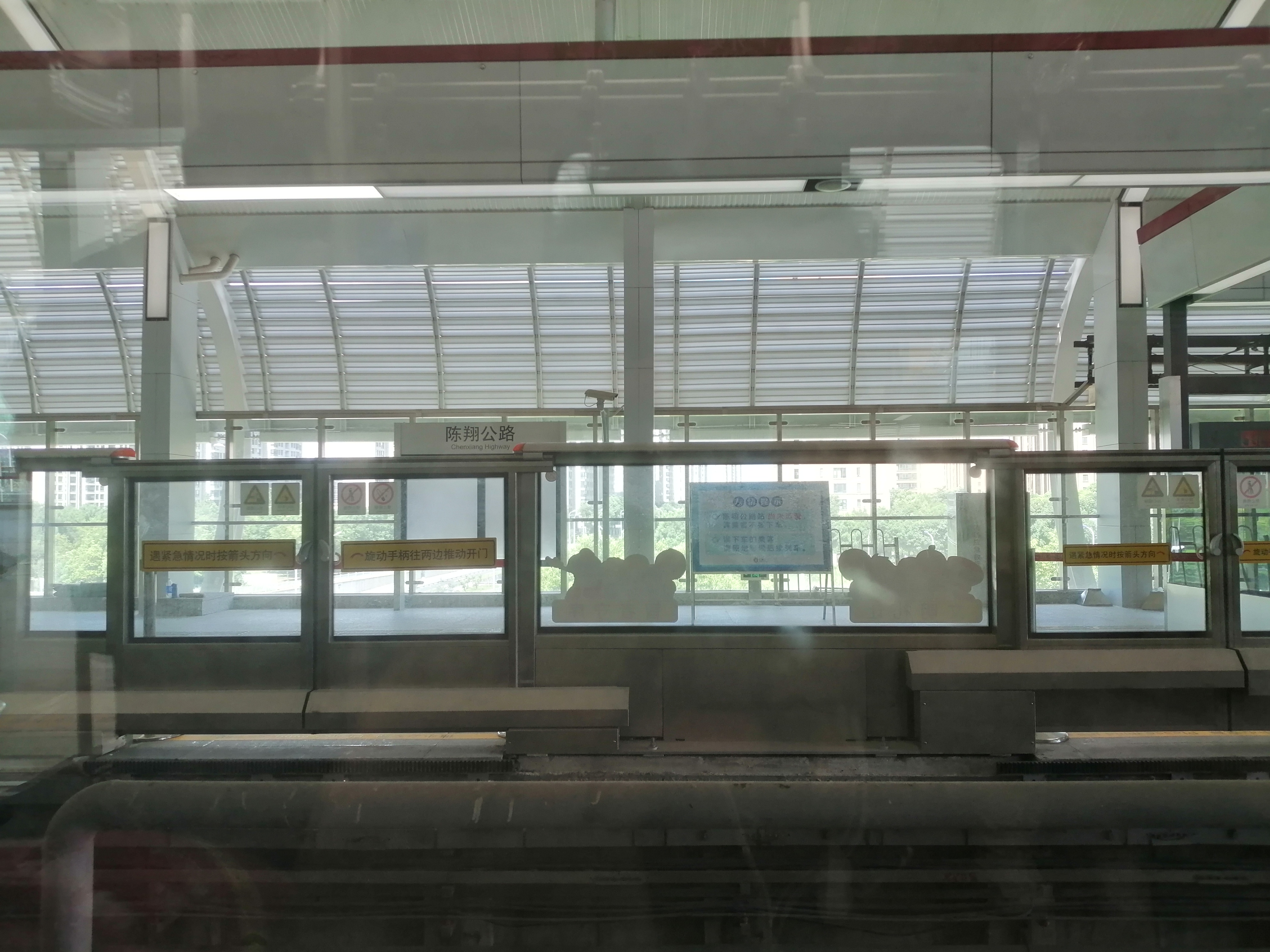 This station is for operation testing only at this time. All trains stop at this station, but passengers do not board or exit.